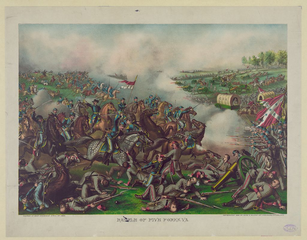 A painting of Sheridan’s charge at the US Civil War Battle of Five Forks. The battle occurred during April 1865.